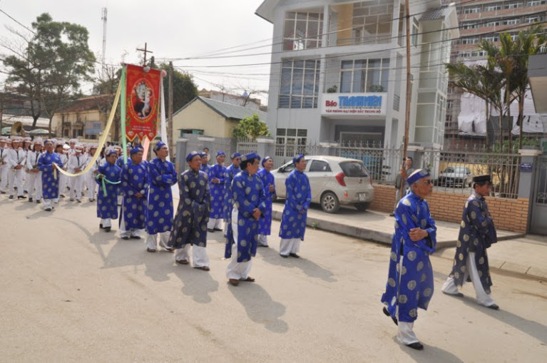 ruoc kieu